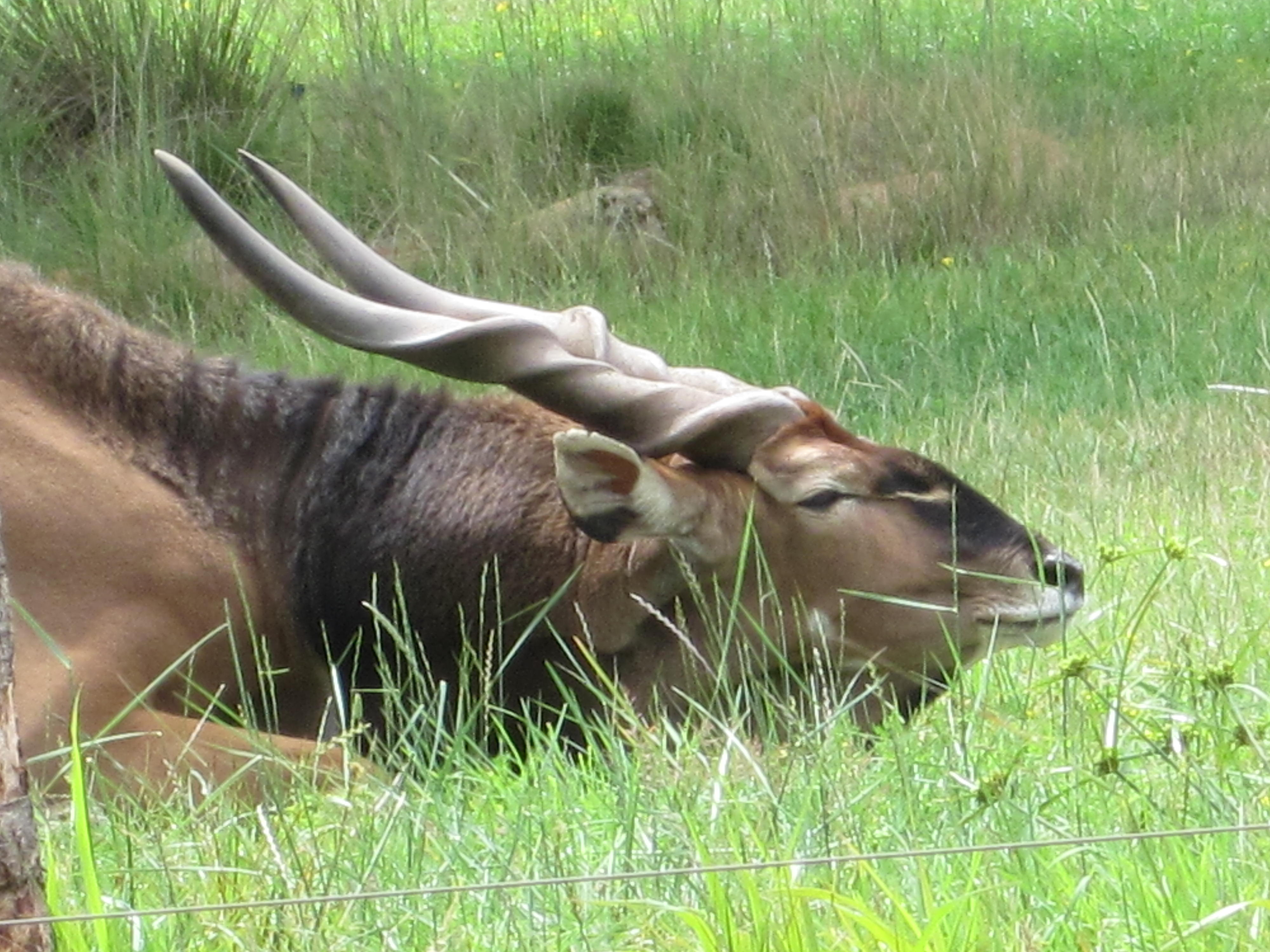 A Giant Eland (Taurotragus derbianus gigas) in the San Francisco Zoo.